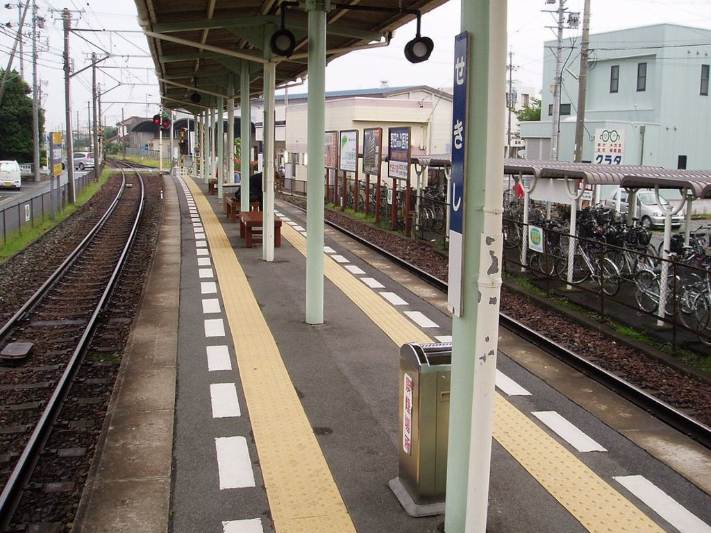 Enshu Railway Sekishi Sta. Platform